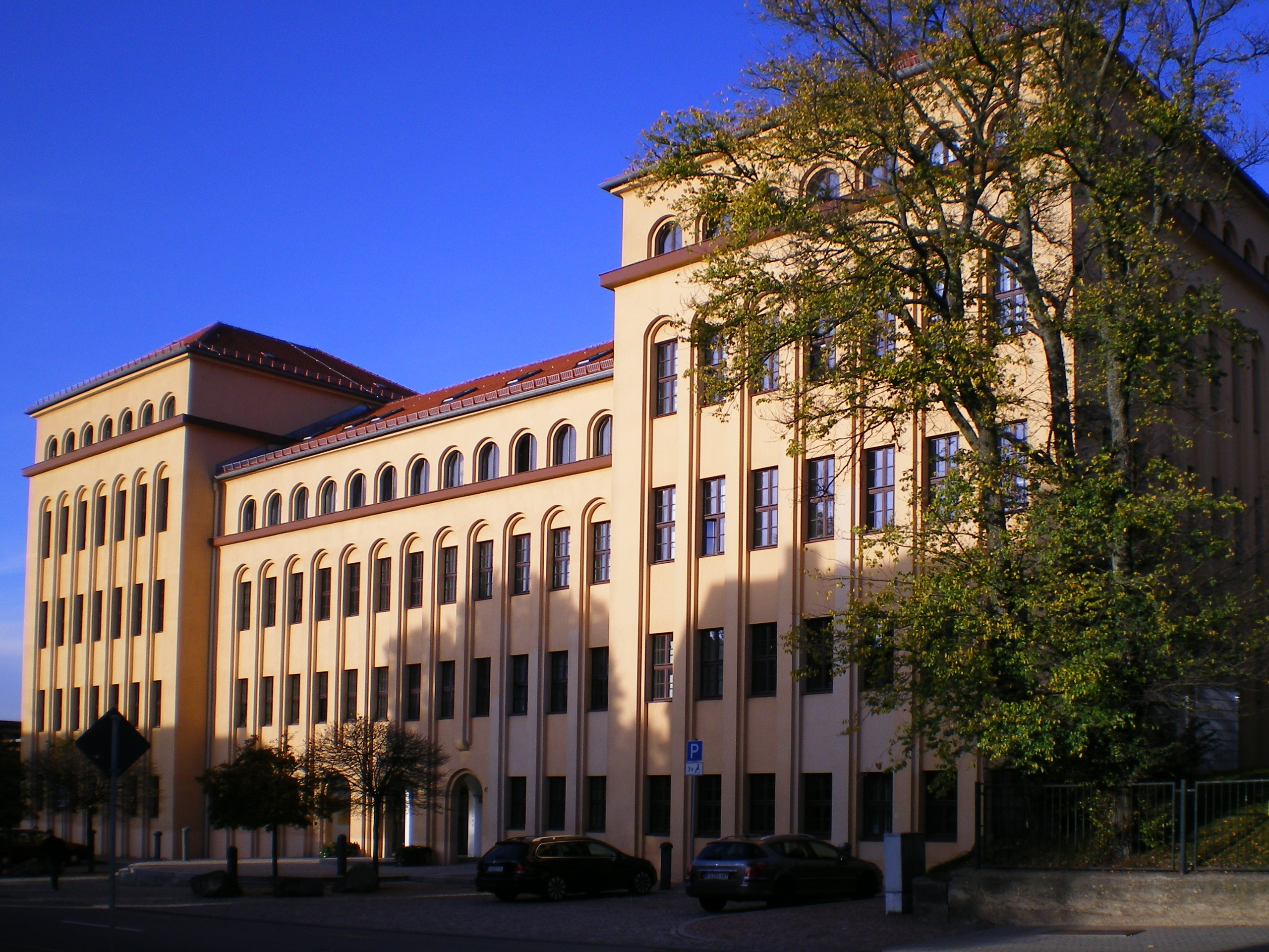 District Office of Mittelsachsen in Freiberg/Saxony